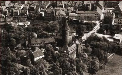 Opole old piastowski castle, before its demolishion in 1928-1930.